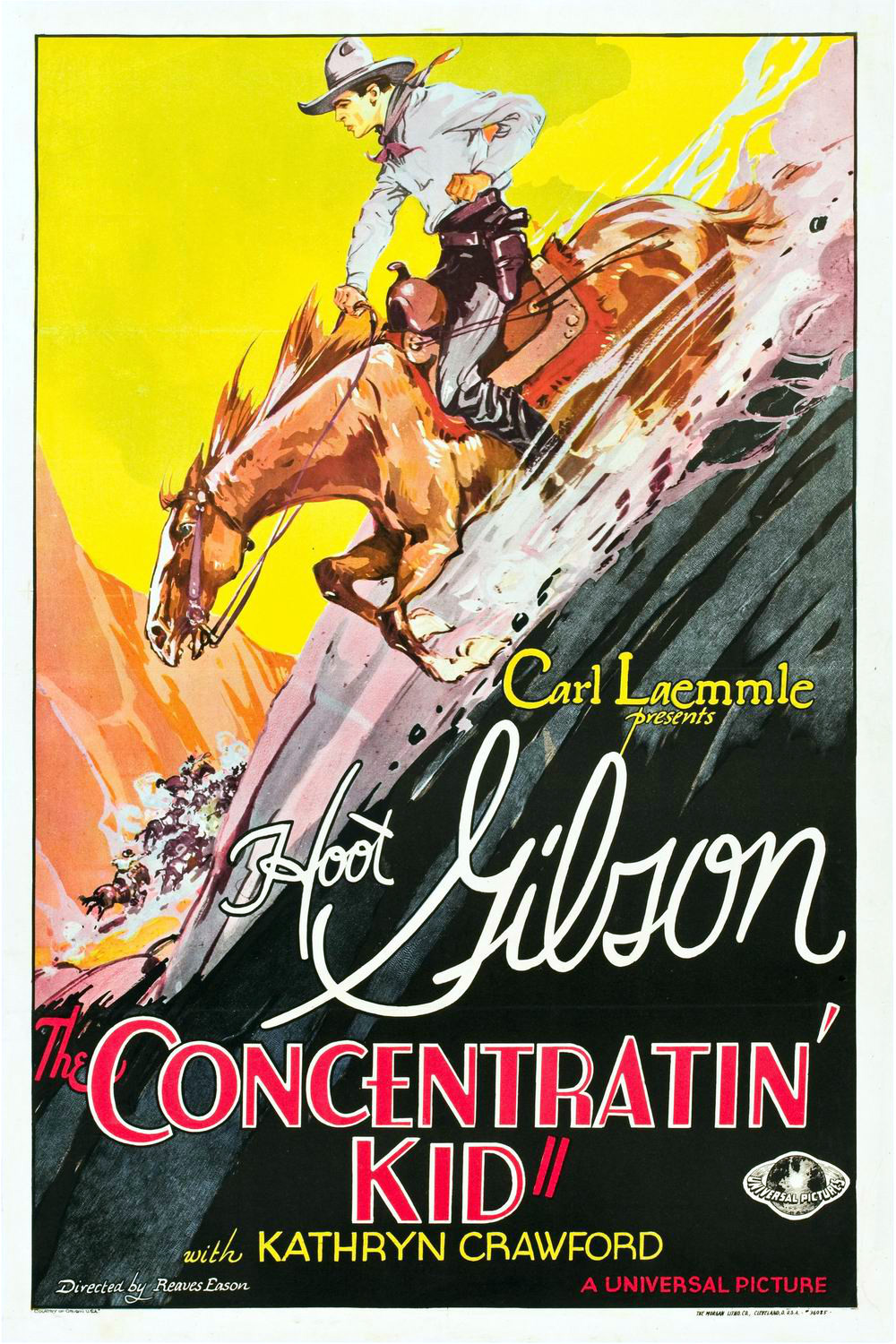 Poster for the American western film The Concentratin' Kid (1930). There are no copyright marks. At bottom left is Country of origin USA. At bottom right is The Morgan Litho, Corp. Cleveland, O.-they printed the poster-36085.